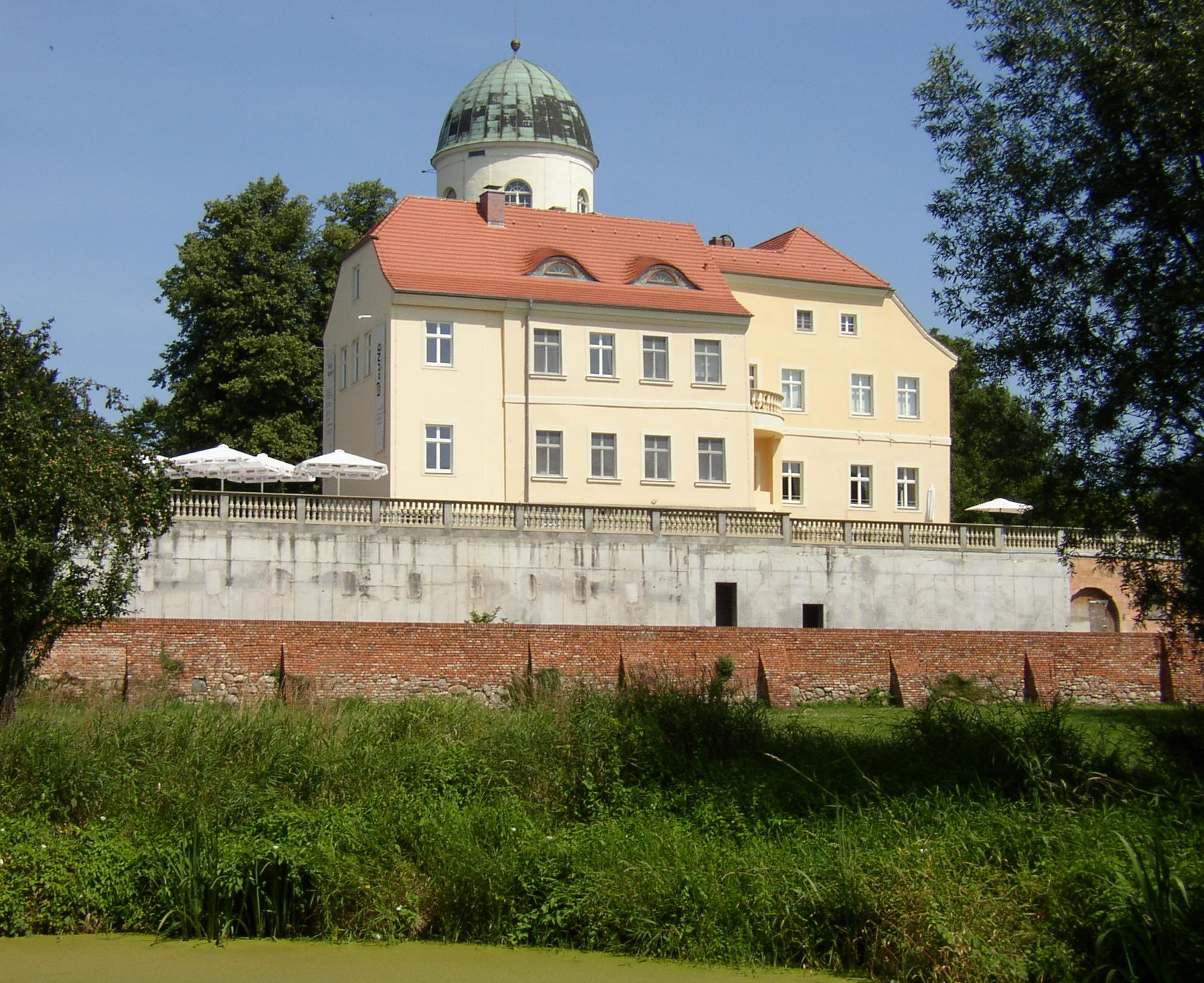 Castle in Lenzen in Brandenburg, Germany